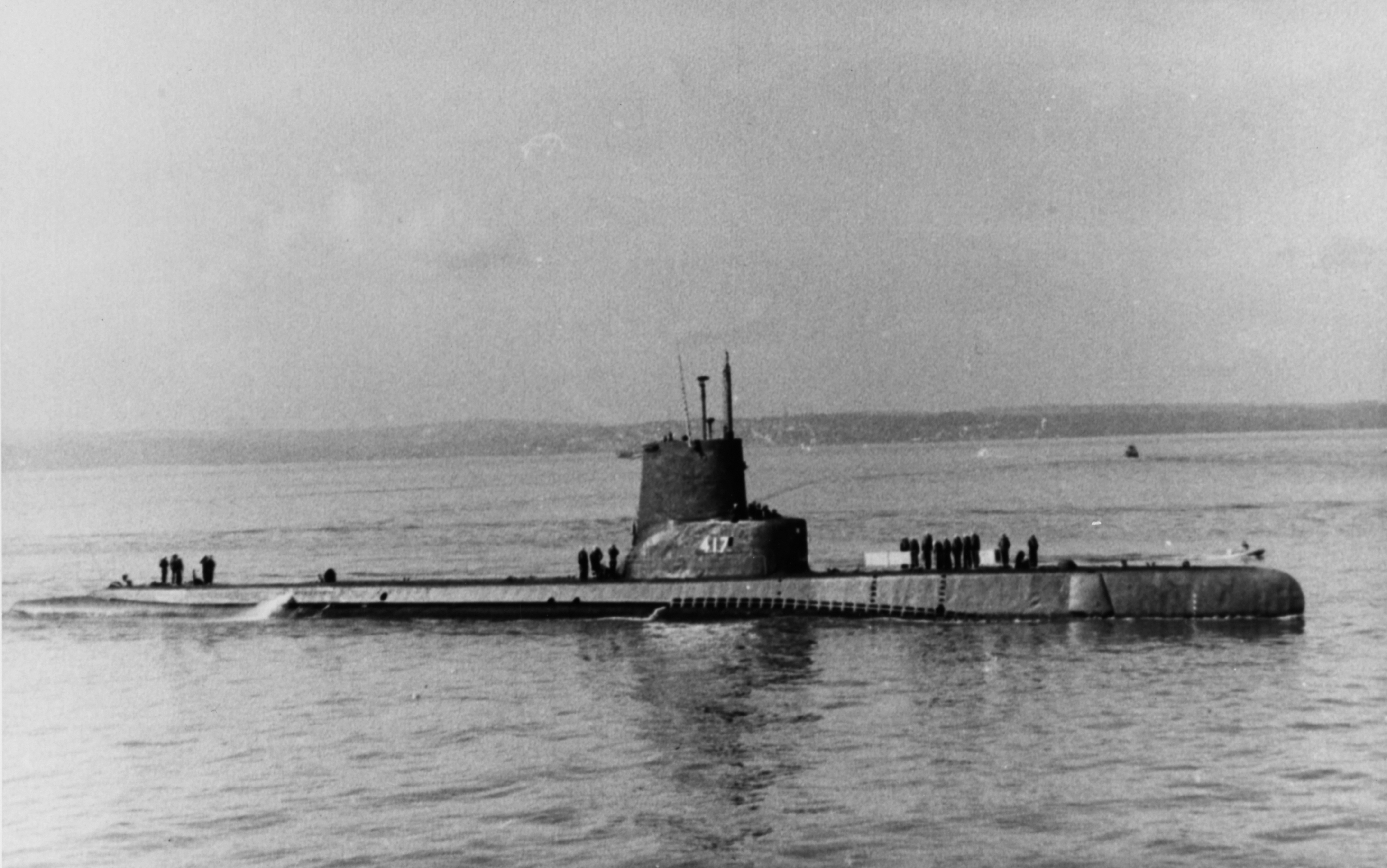 The U.S. Navy submarine USS Tench (SS-417) underway after her Guppy IA conversion, circa in the 1950s.